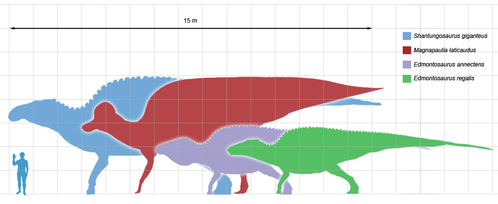 Scale diagram of the largest known ornithopod dinosaurs, compared in size with a human. Each grid section represents 1 square meter. Blue: Shantungosaurus giganteus (type specimen). Red: Magnapaulia laticaudus (LACM 17712). Violet: Edmontosaurus annectens (specimen MOR 003, formerly Anatosaurus annectens, before Anatosaurus had been synonymised with Edmontosaurus). Green: Edmontosaurus regalis (specimen USNM 12711). Adapted from illustrations and scale diagrams by ArthurWeasley, Dropzink, and Prieto-Márquez et al. 2012